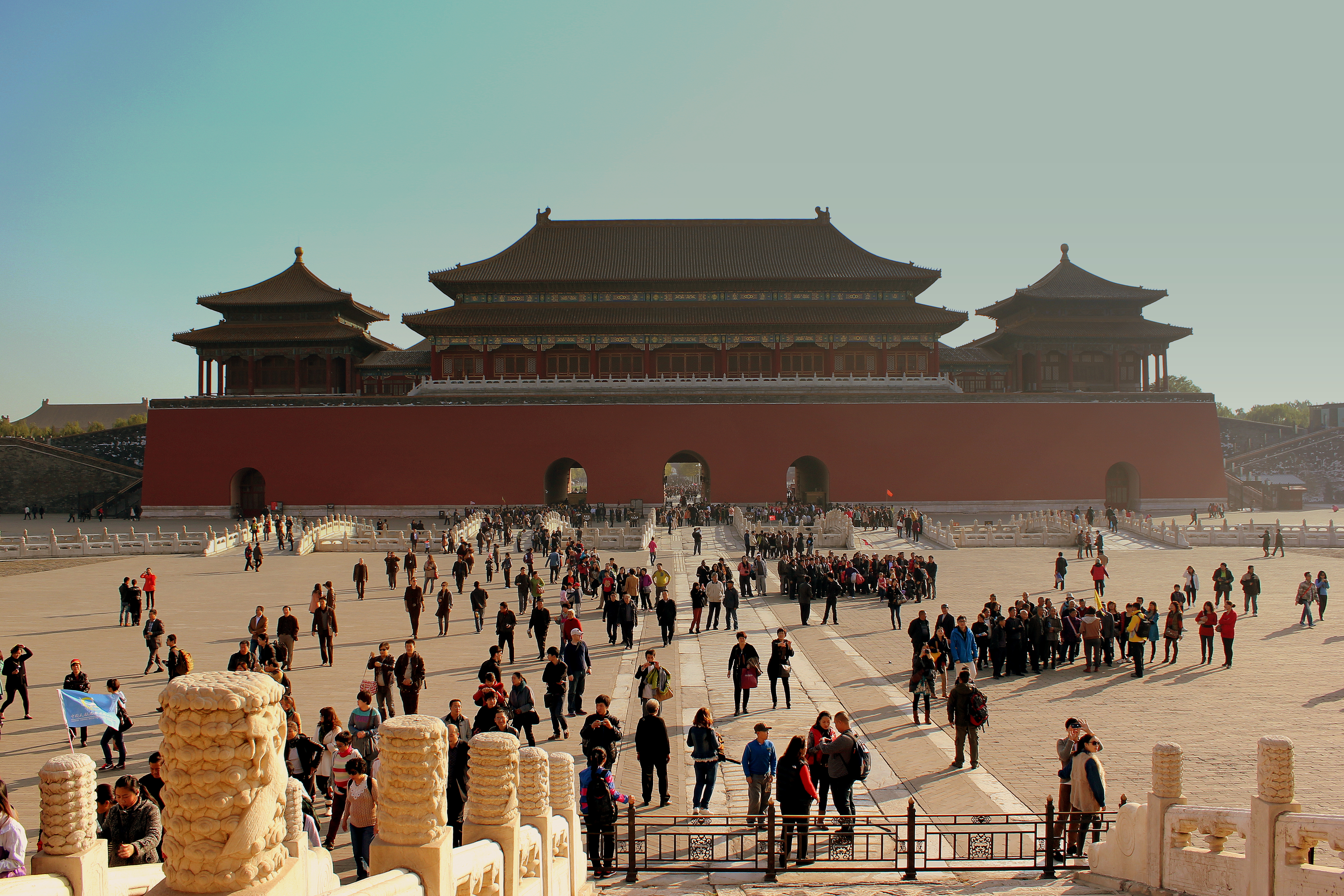 FORBIDDEN CITY BEIJING CHINA NOV 2012